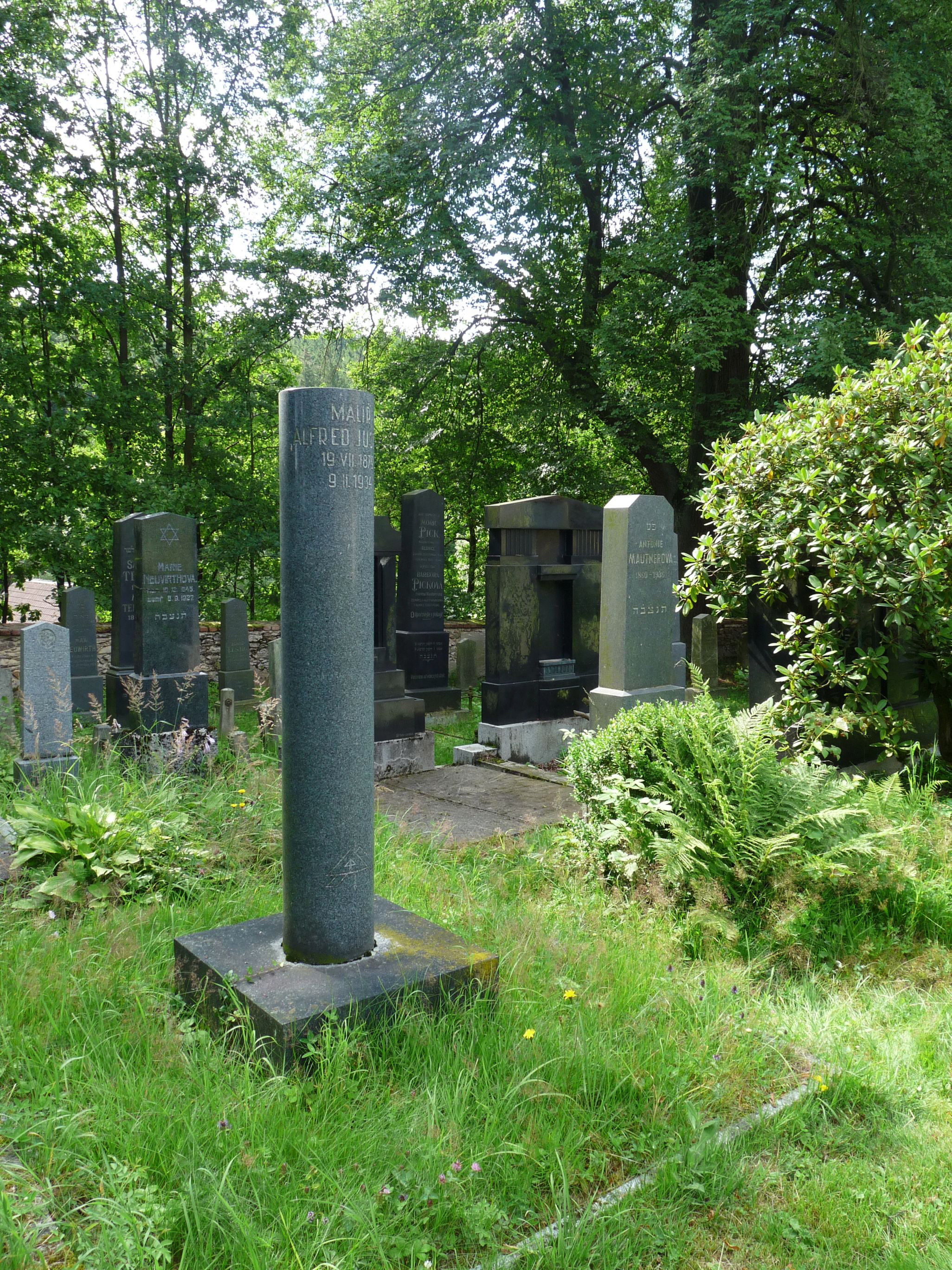 Jewish cemetery in the market town of Nová Cerekev, Pelhřimov District, Czech Republic